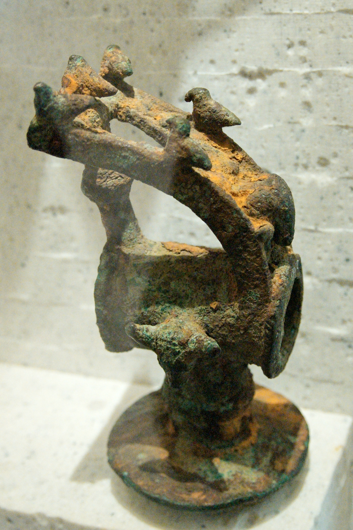 Sacrificial hammer. Bronze, 7th century BC. From Dodona in Epirus.